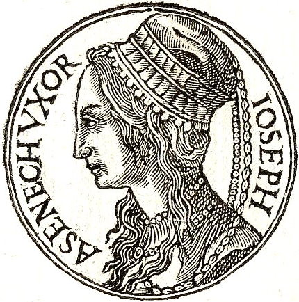 Asenath is a figure in the Book of Genesis, an Egyptian woman whom Pharaoh gave to Joseph son of Jacob to be his wife.